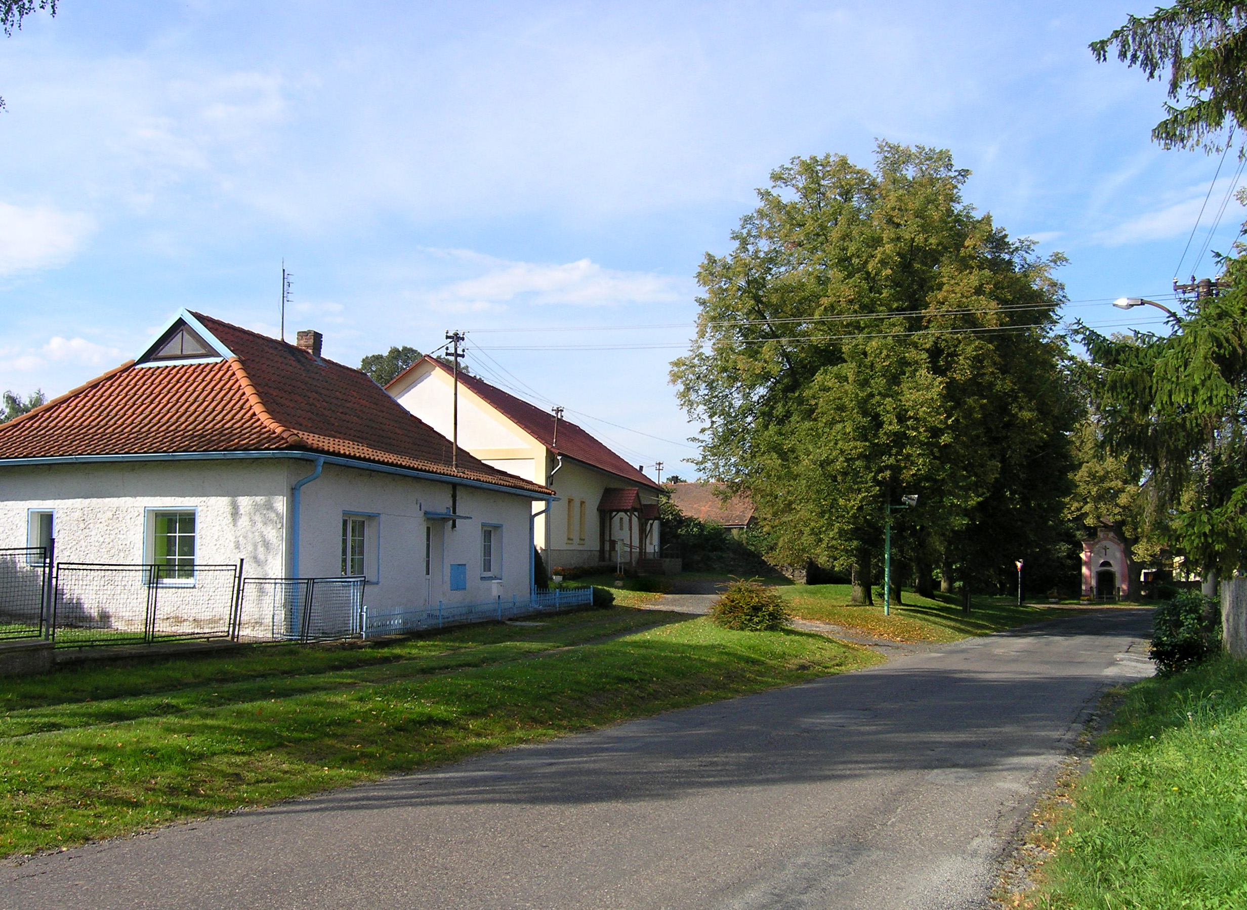 Common in Mančice, part of Dolní Chvatliny village, Czech Republic